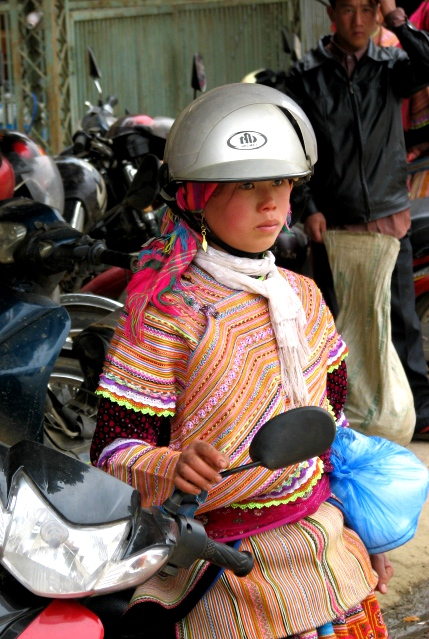 Girl of the Flower H'mong people North Vietnam